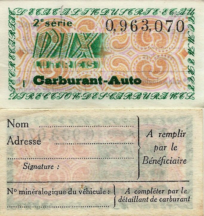 Gasoline rationing ticket used in France during crisis of Suez canal - 1956. Rationing ends in 1957.